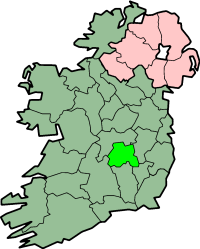 Laois map, Ireland. 08:05, 5 February 2004 Morwen 200x249 (30675 bytes) (map)